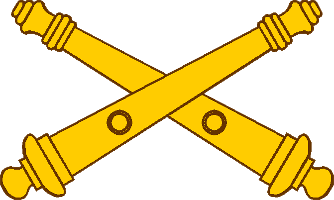 United States Army Field Artillery collar brass. Made with Photoshop.